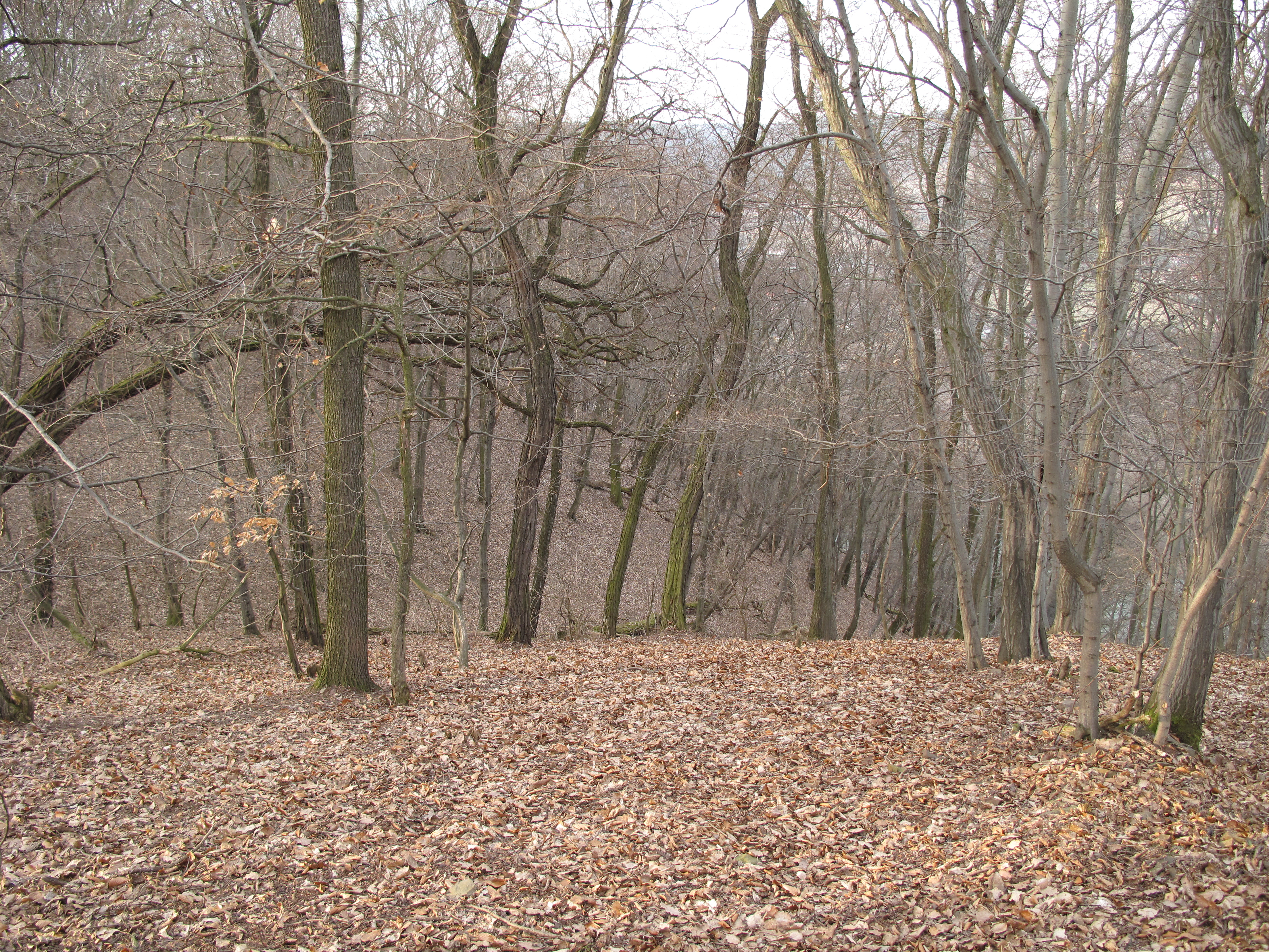 View from the hill natural monument Voškov, Beroun District, Czech Republic.